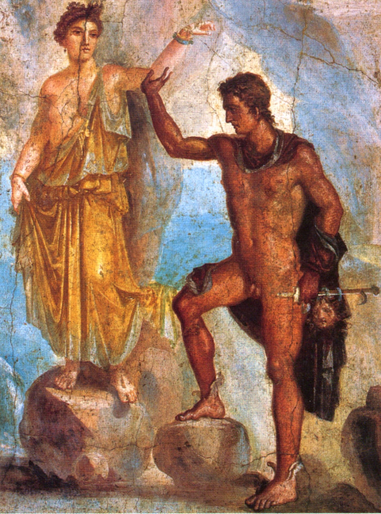 Roman fresco of Perseus and Andromeda from the Casa dei Dioscuri (VI 9,6) in Pompeii. Now in the Museo Archeologico Nazionale in Naples.